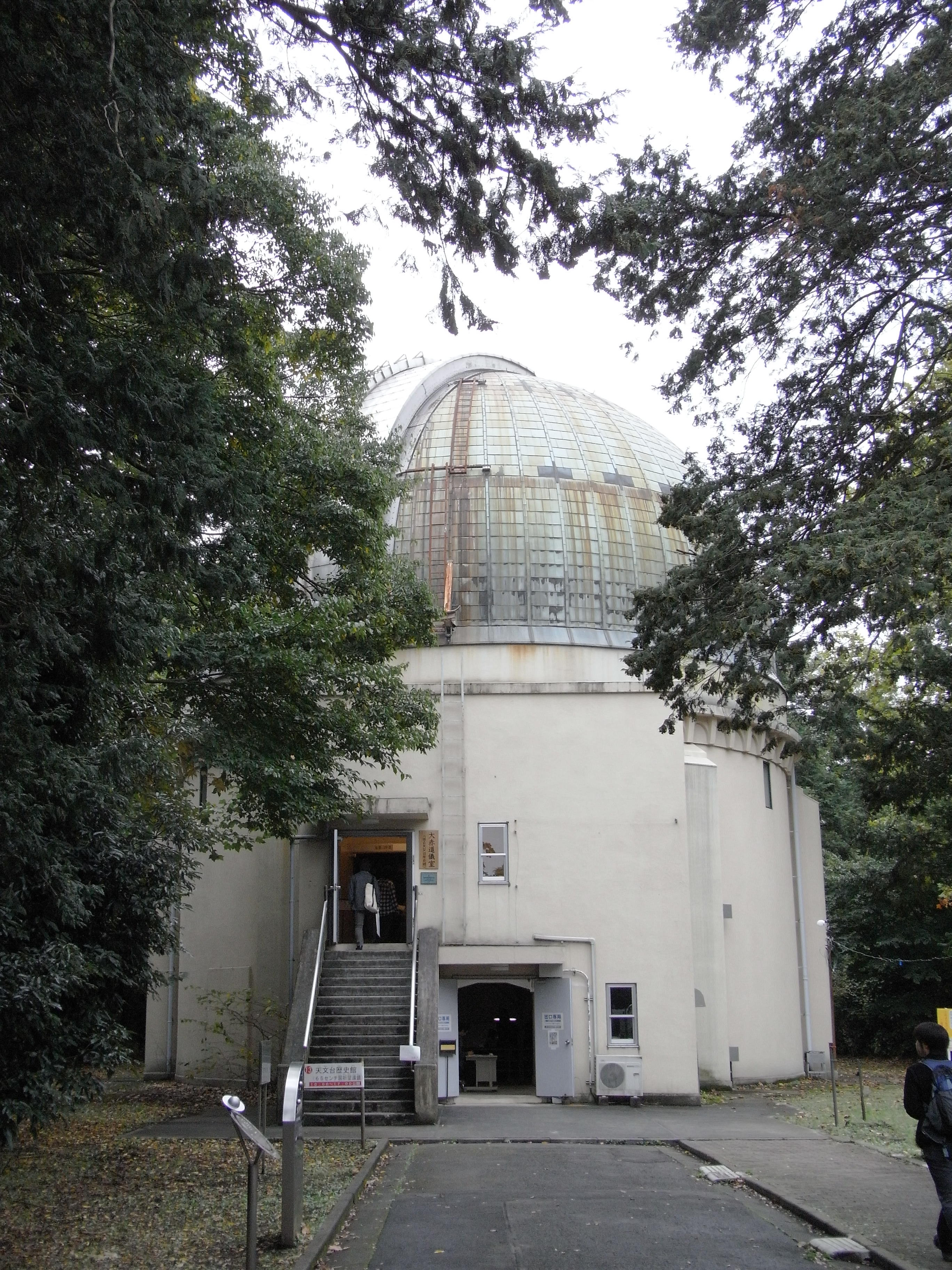 Observatory History Museum in Mitaka Campus, National Astronomical Observatory of Japan, Mitaka, Tokyo, Japan. The dome, built in 1926, is for 65cm refractor telescope which was manufactured by Carl Zeiss Jena.